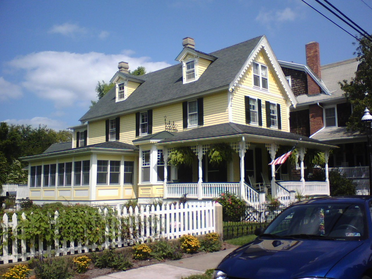 Cape May Victorian House